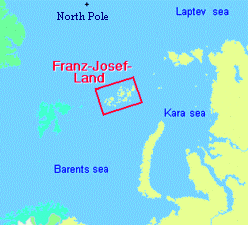 Location of Franz Josef Land.